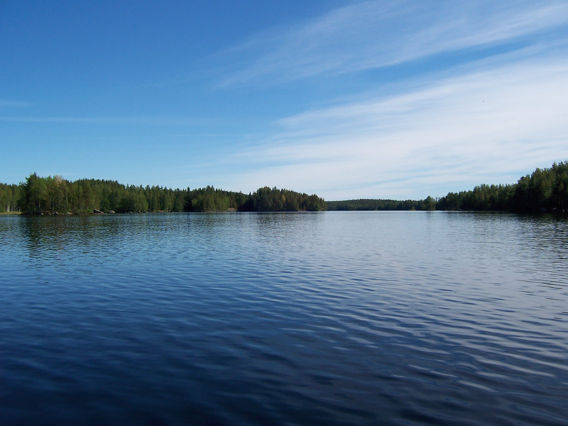 Lake "Armisvesi" in Hankasalmi, Finland.